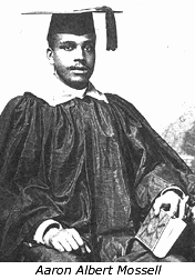 Aaron Albert Mossell at the time of his 1888 graduation from the University of Pennsylvania Law School